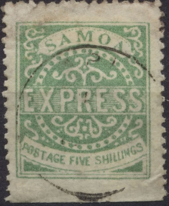 Samoa Express stamp - believed genuine.